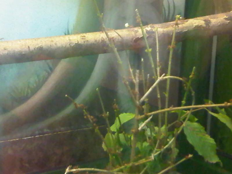 Unidentified leafcutter ants at the Natural History Museum in London.